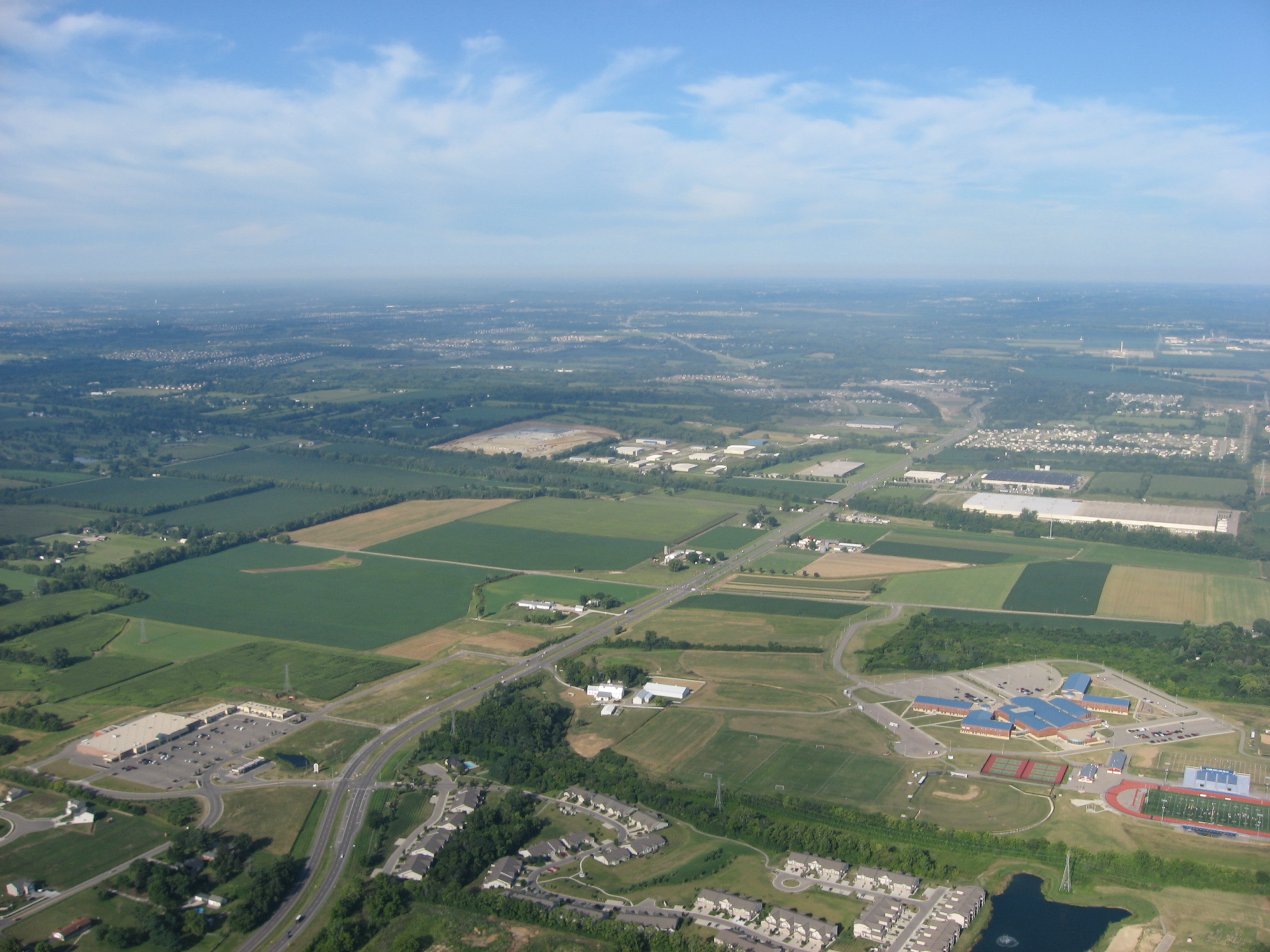 Aerial view of southern Lemon Township, Butler County, Ohio, United States. The highway is Hamilton-Lebanon Road (State Route 63); it meets Macready Avenue in the bottom left corner of the picture. Picture taken from a Diamond Eclipse light airplane at an altitude of 2,400 feet MSL and a bearing of approximately 255º.